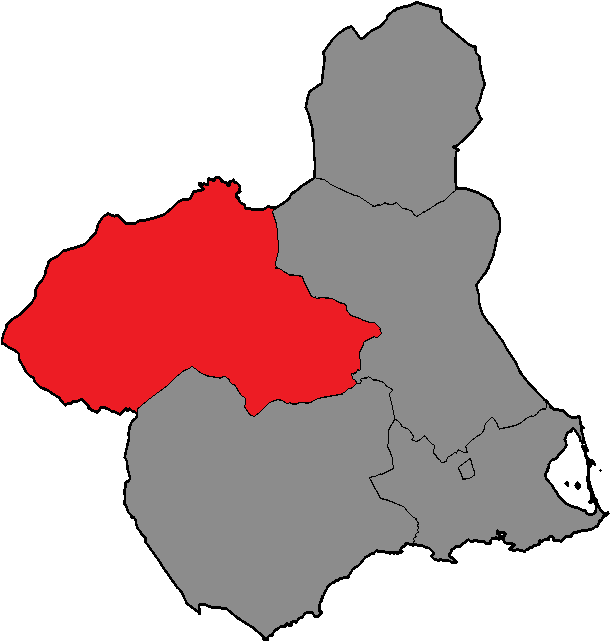 Murcian Regional Assembly District Four.